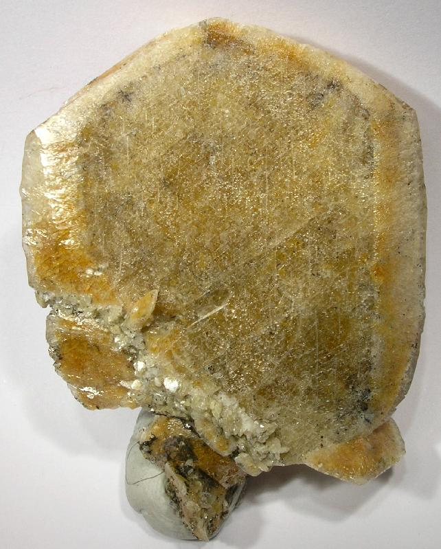 Herderite Locality: Linópolis, Divino das Laranjeiras, Doce valley, Minas Gerais, Southeast Region, Brazil (Locality at ) Size: miniature, 6 x 4.6 x 1.2 cm Herderite A VERY sharp, unusually bladed herderite crystal that is translucent around the edges and has a very sharp, narrowed, twin plane as you see in teh second photo. Interesting crystallography for the species, especially from this locale known more for short, fat herderites.